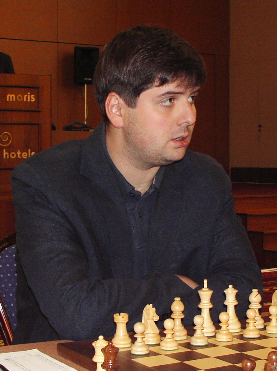 GM Peter Svidler Russia, Euro Chess Iraklion 2007